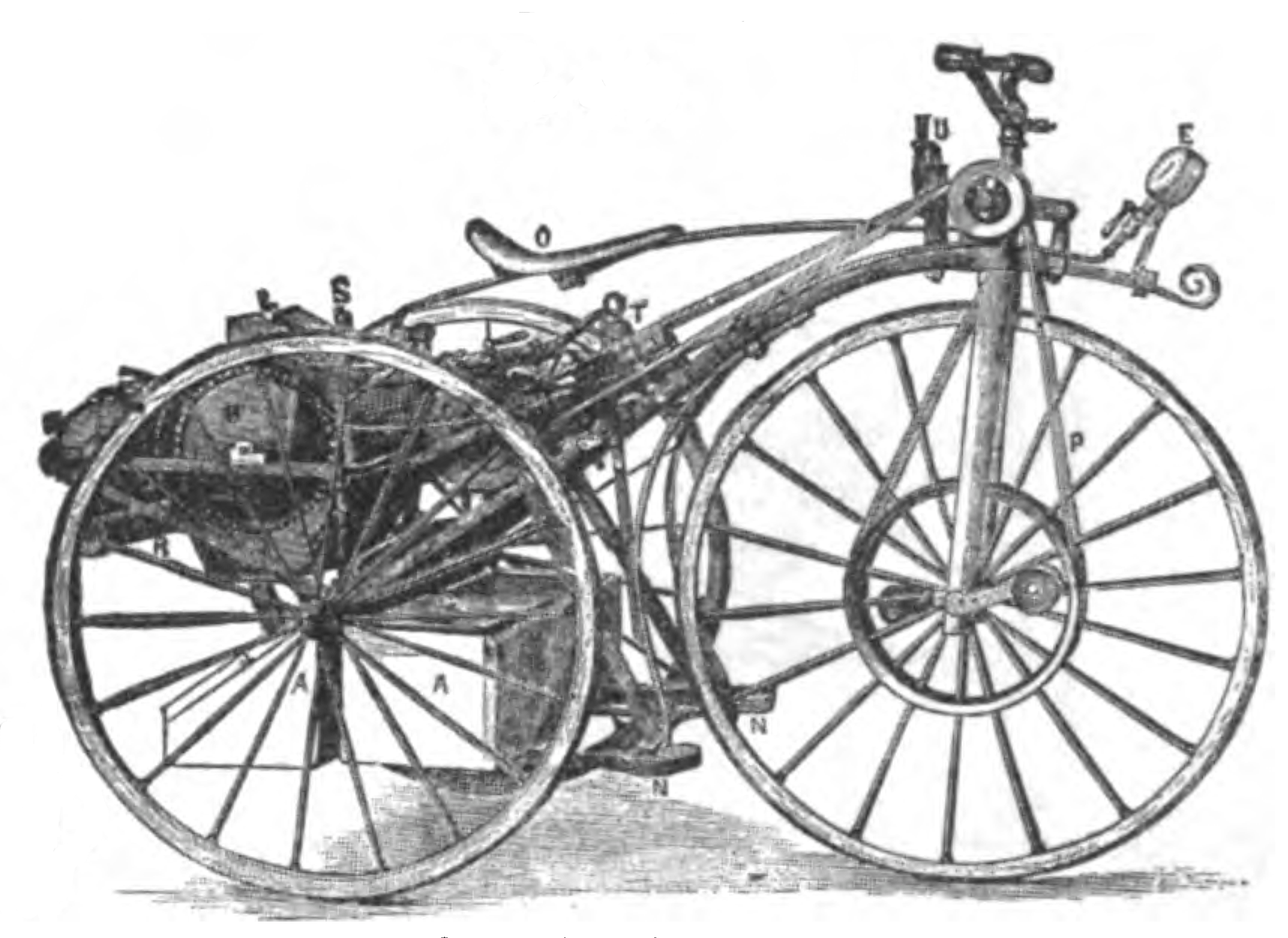 Figure 2503. Page 923. Knight's new mechanical dictionary: A description of tools, instruments, machines, processes, and engineering. With indexical references to technical journals (1876-1880.) (Google eBook) Edward Henry Knight. Houghton, Mifflin and company, 1884